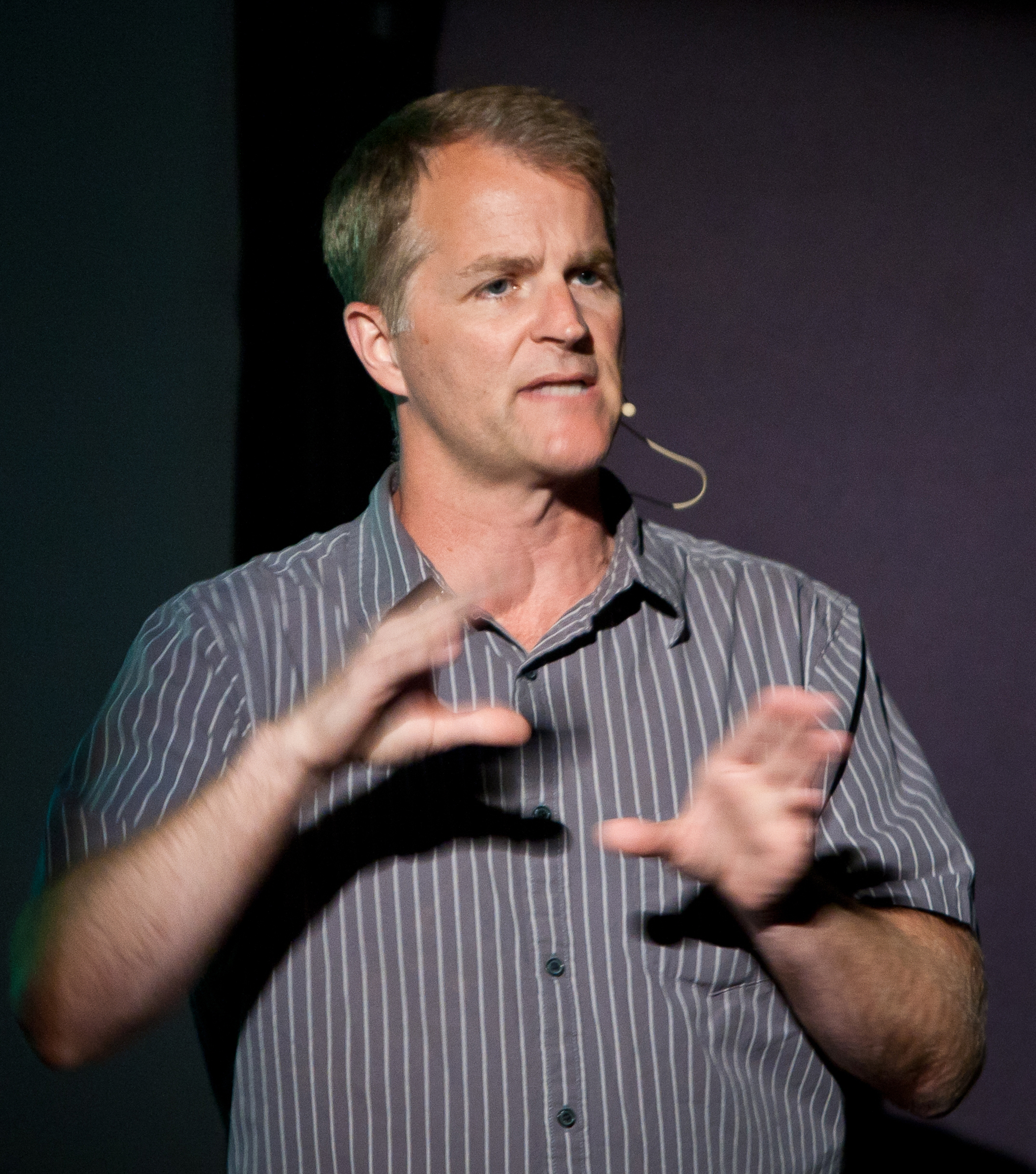 VFS recently welcomed Oscar-nominated animator Chris Bailey for a special visit and presentation with VFS Animation & Visual Effects students. Chris’ work can be seen in much-loved films such as The Lion King, The Little Mermaid, The Rescuers Down Under, and more recently on hits such as X-Men 2, Eragon, and Hop.